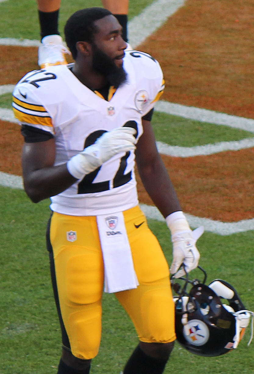 Chris Rainey, a player on the National Football League.